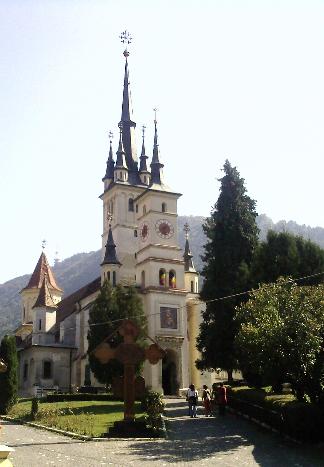 St.Nicholas Church in the Schei, Braşov, Romania